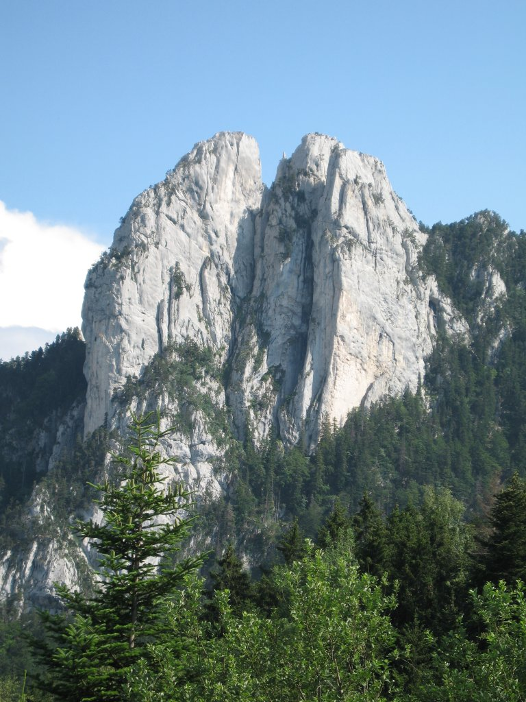 Les Trois Pucelles, Vercors, France